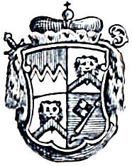 Coat of Arms Meginhard I. 1018 to 1034 Bishop von Würzburg.